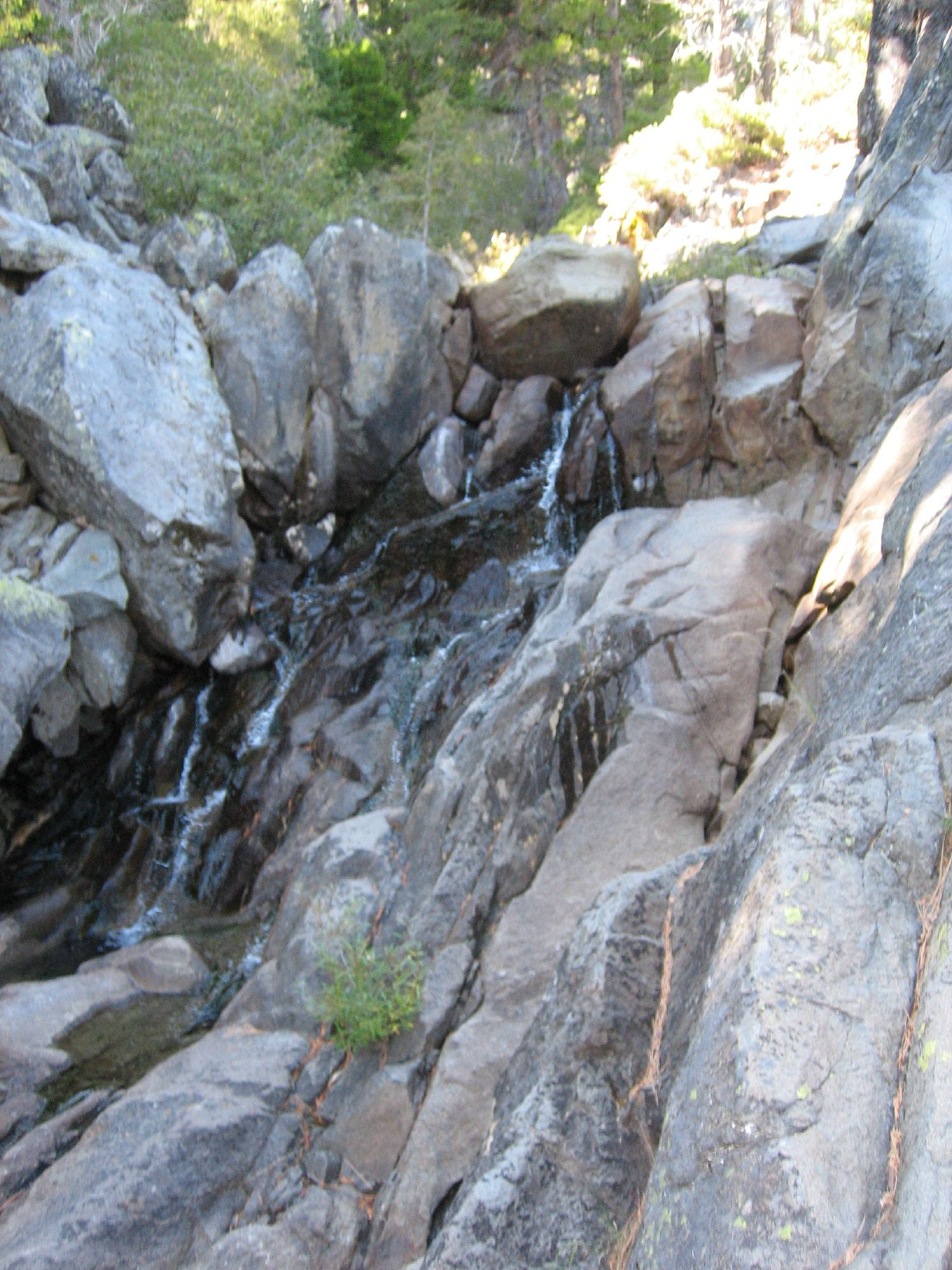 Waterfall along Eagle Falls Trail, near Lake Tahoe, Sierra Nevada, USA